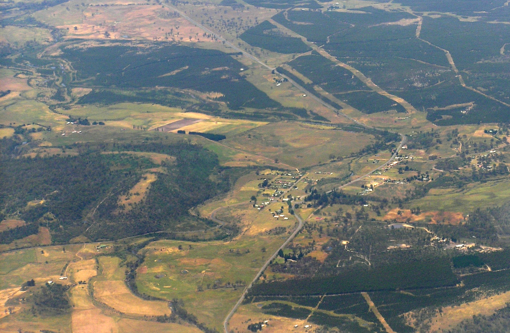 Buckland photographed from the west